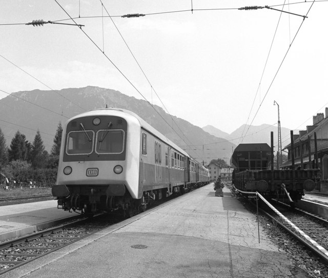 Electric train at Ruhpolding.